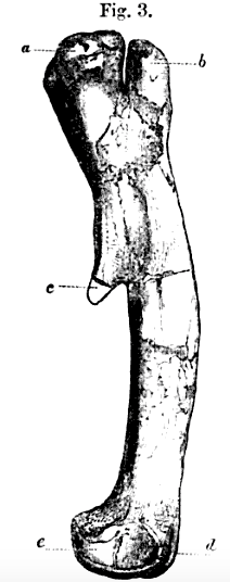 Holotype femur of Callovosaurus leedsi (=Camptosaurs leedsi)